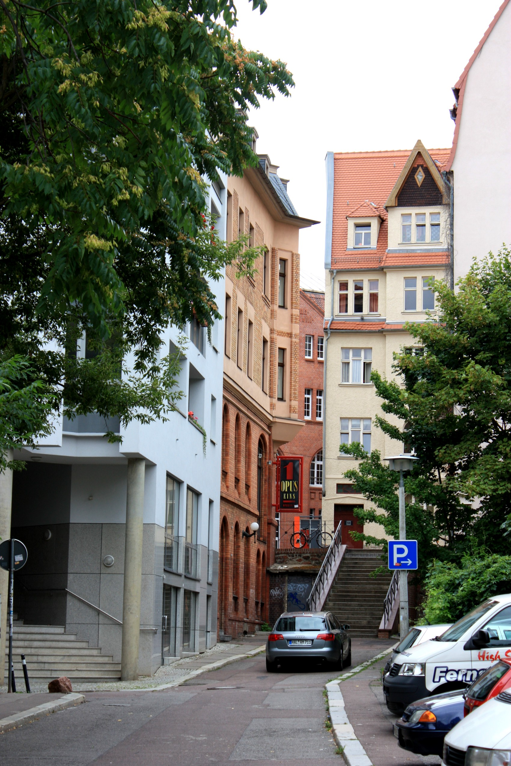 Halle (Saale), the street "Unterberg"